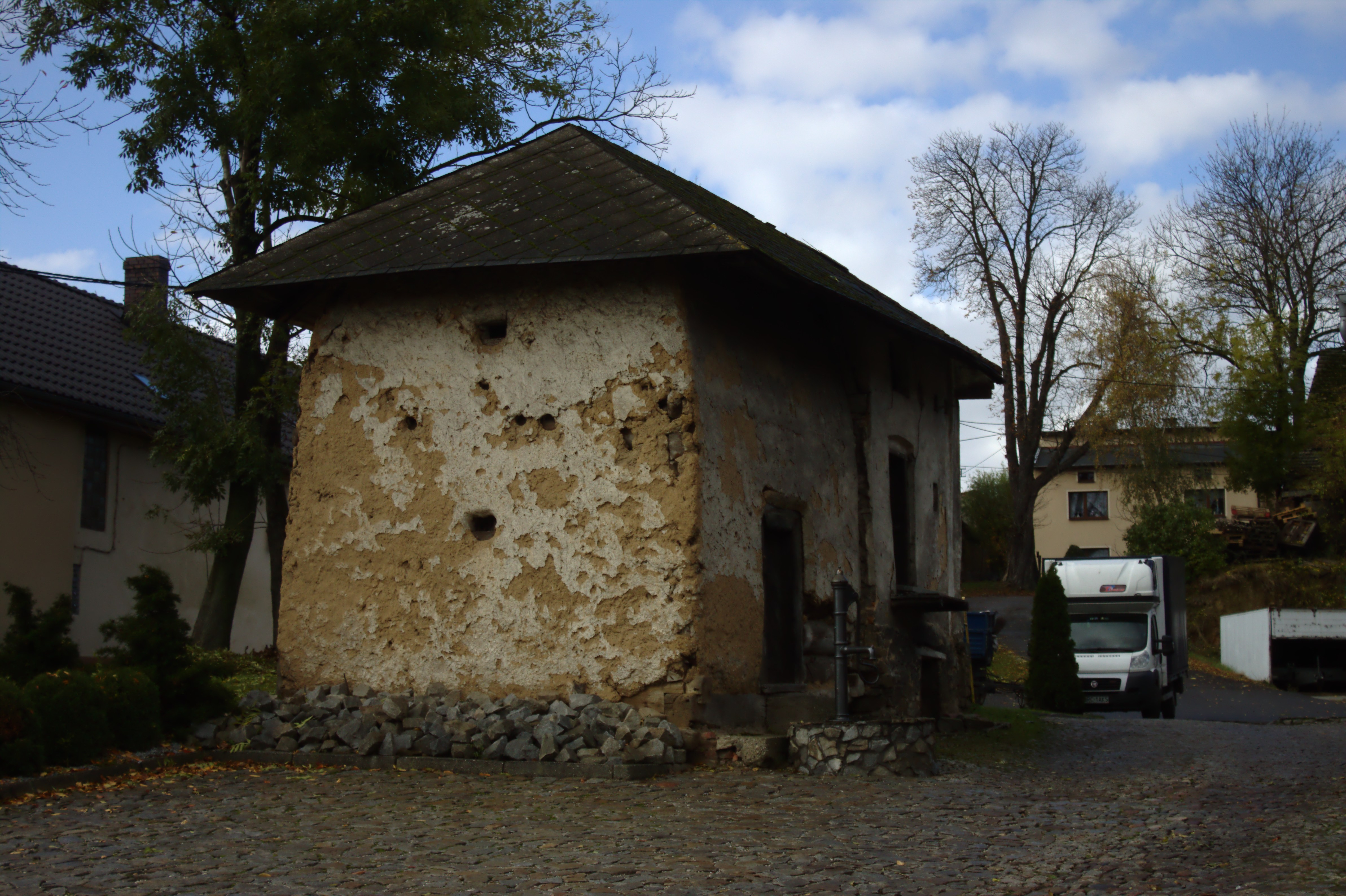 An old granary in the villge of Bolesław, Poland